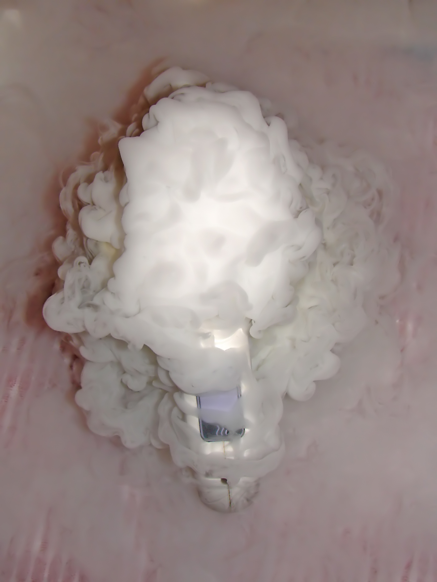 Dry ice in hot water experiment. Dry ice pellets sublimating in water produces Carbon dioxide gas. It is so cold that when it mixes with humid air above, cools the water vapour to fog, which looks like a thick white smoke. It is often used in the theatres & TV to create the appearance of fog or smoke. [1]